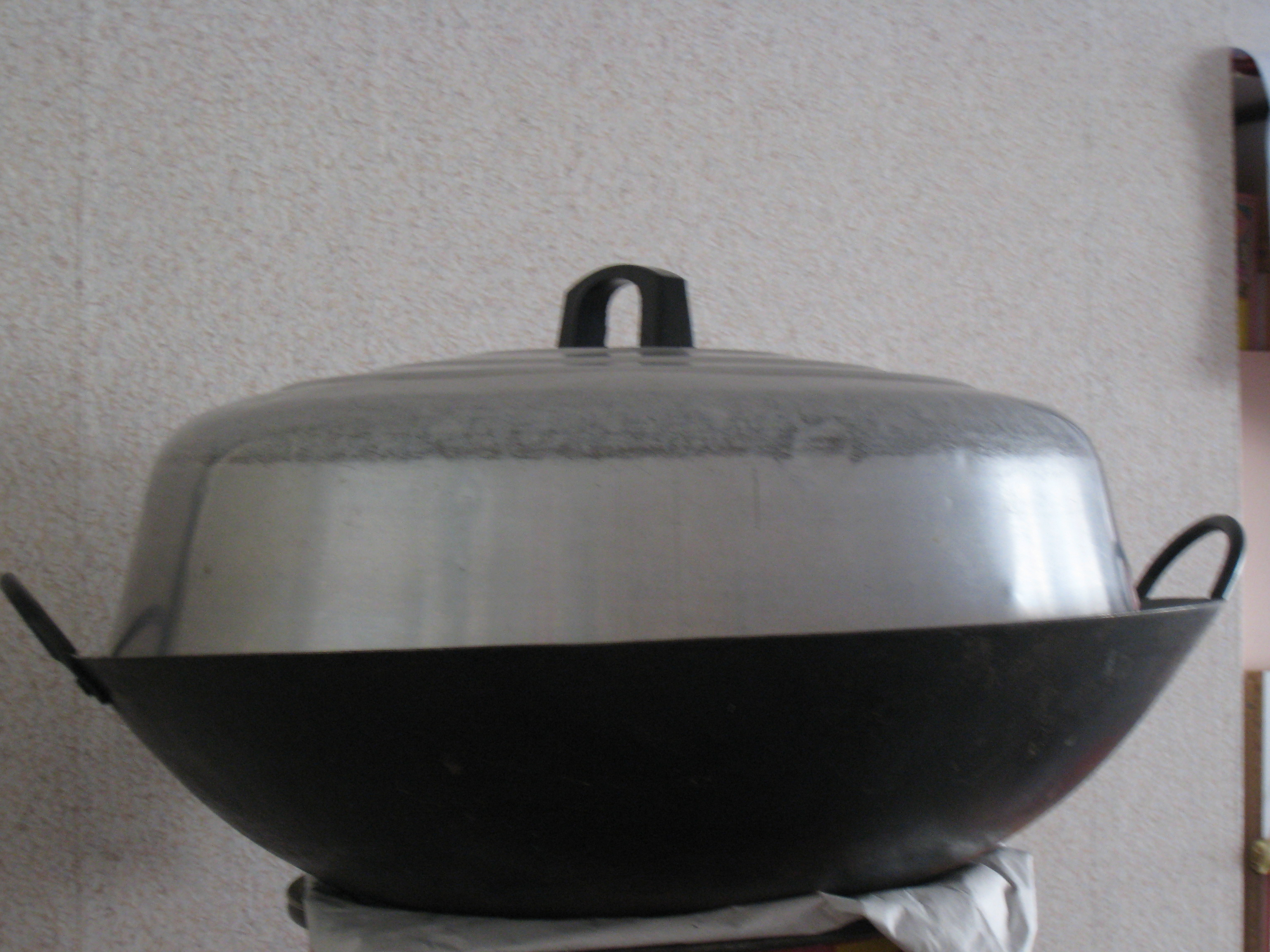 wadjan, used for steaming